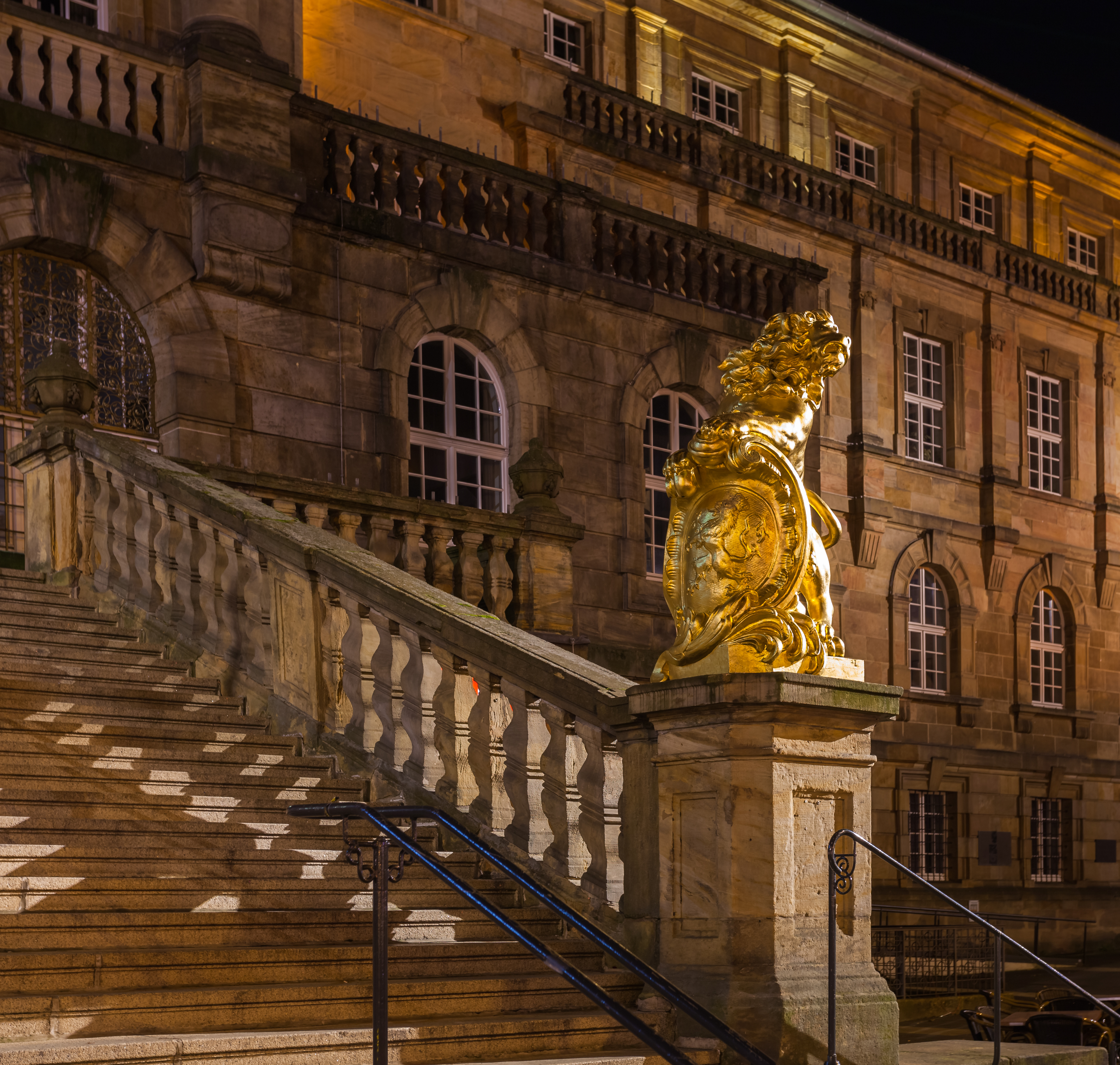 City hall, Kassel, Germany